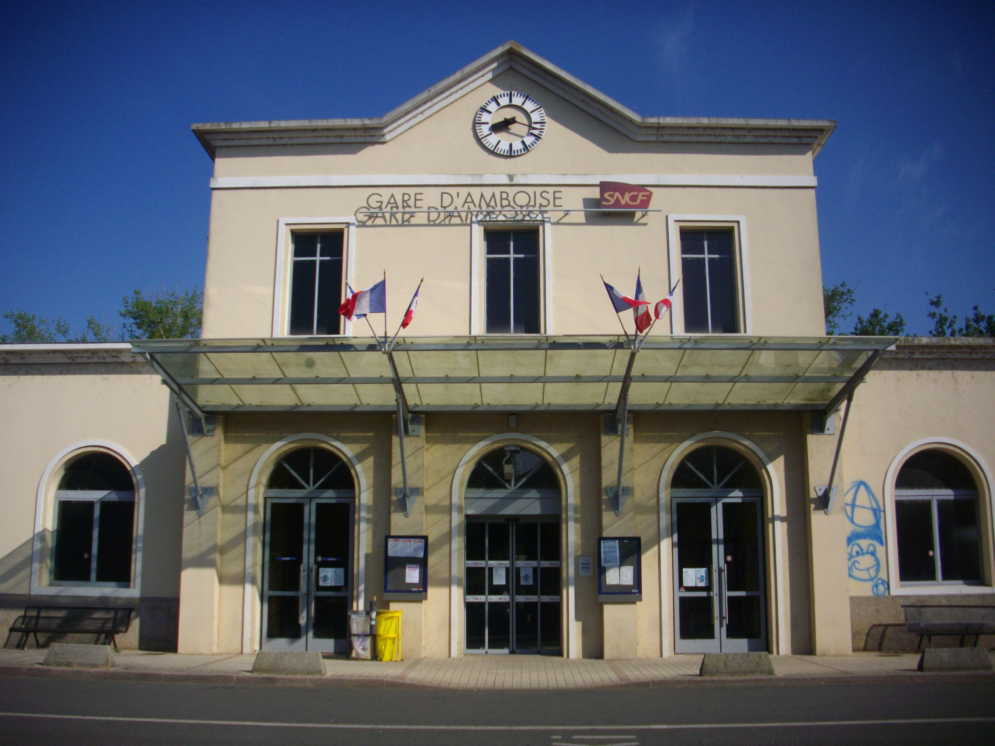 Train station of Amboise (Indre-et-Loire, France)